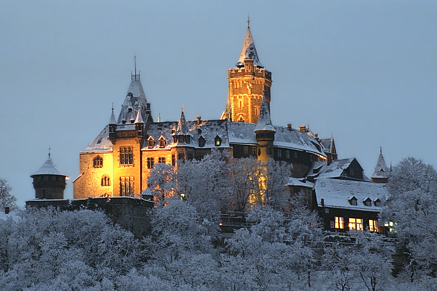 Castle of Wernigerode in Winter, Shutter speed was automatic, which makes the image brighter than the castle was at the time.